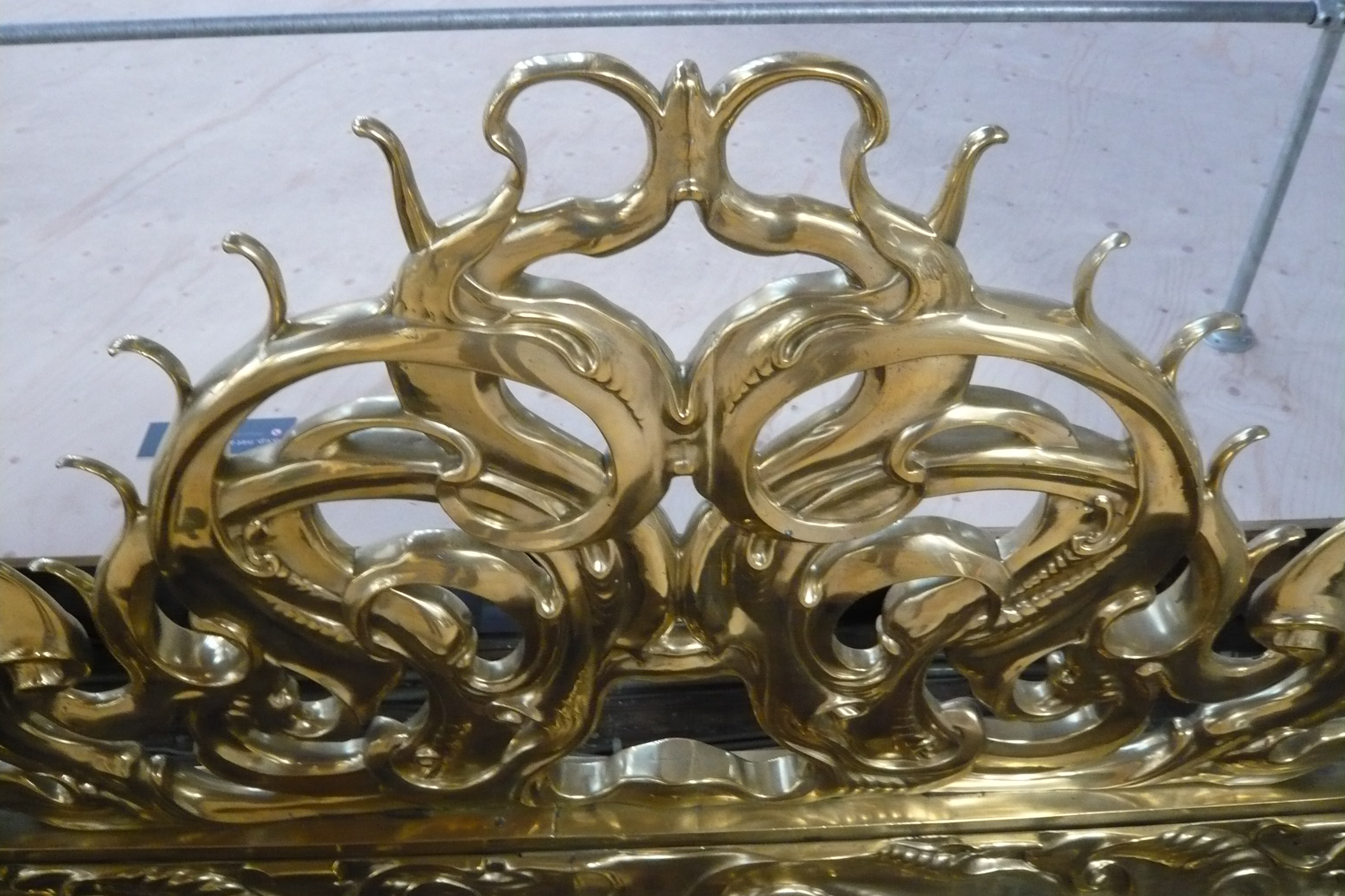 Photo of Choir gate in Nieuwe Kerk, Amsterdam taken from scaffolding platform during cleaning activities in 2010